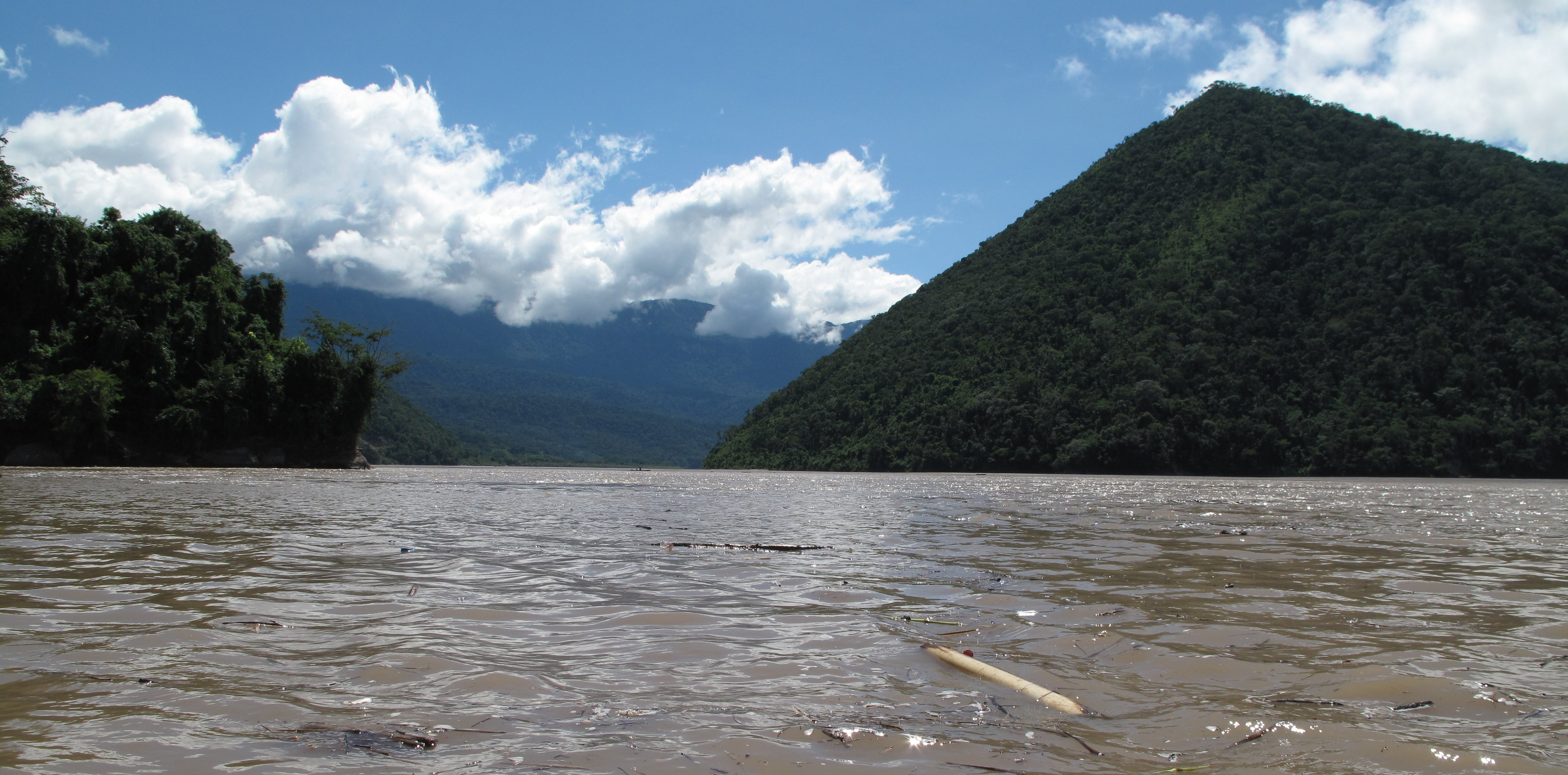 View of the Río Tambo near Puerto Prado, Junín, Peru. Boat trip downriver to Atalaya (7 hours).